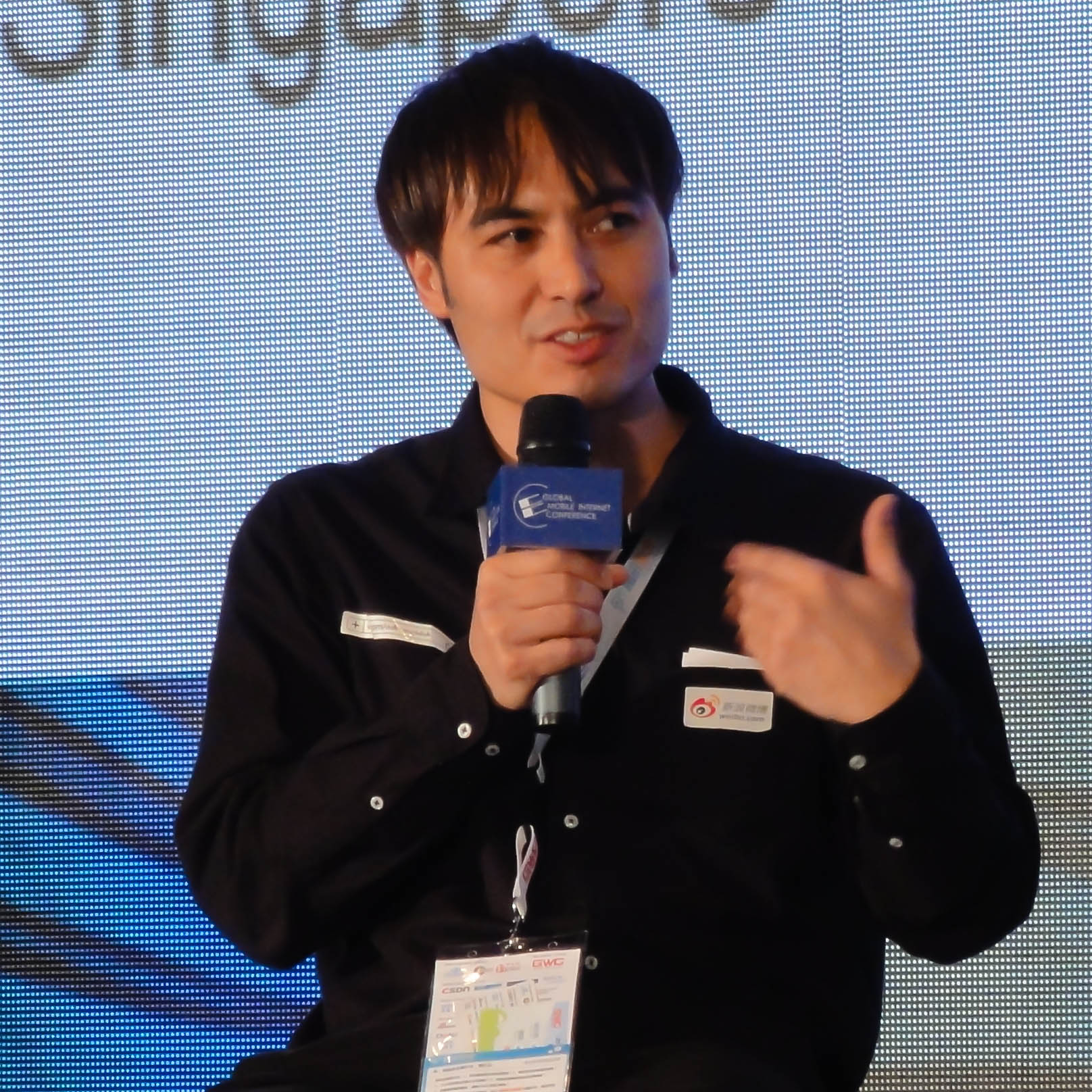 Adrian David Cheok giving a talk